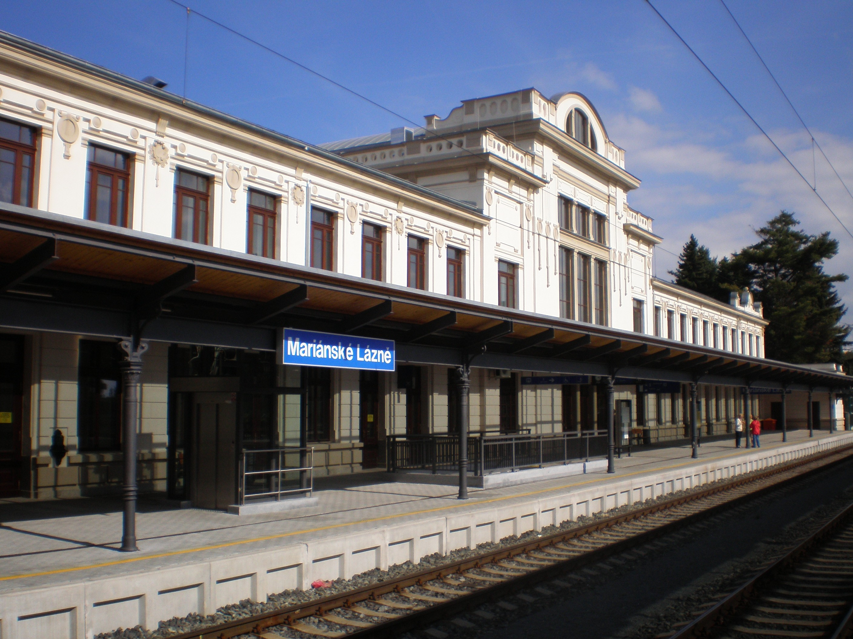 Mariánské Lázně, Cheb District, Czech Republic; train station Mariánské Lázně